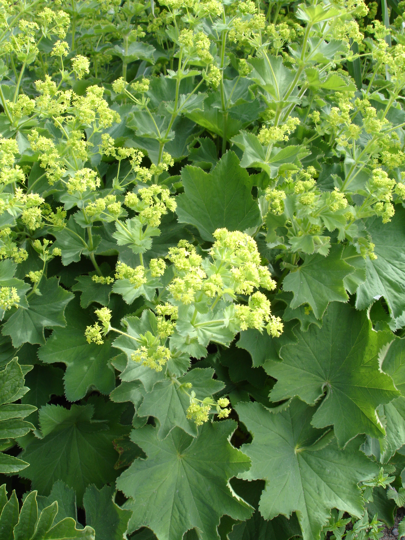 Alchemilla mollis